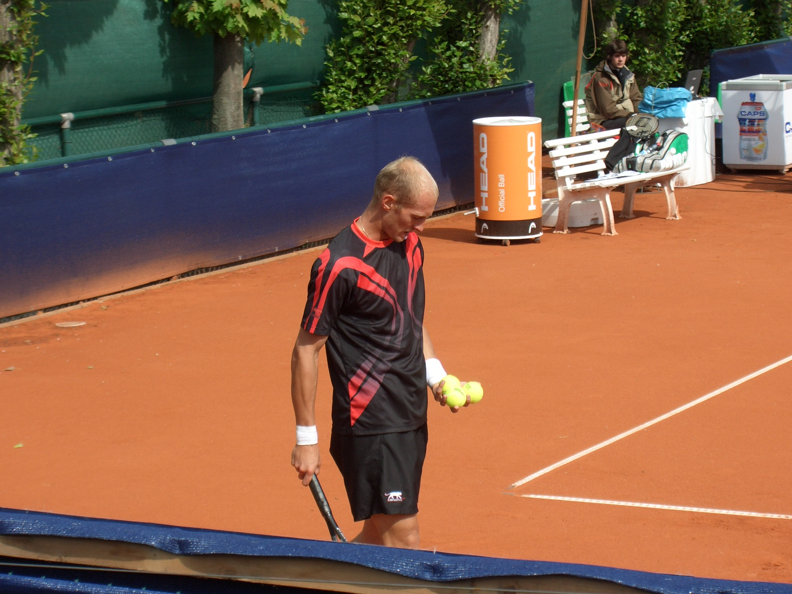 Nikolay Davydenko at the Hamburg Masters 2007